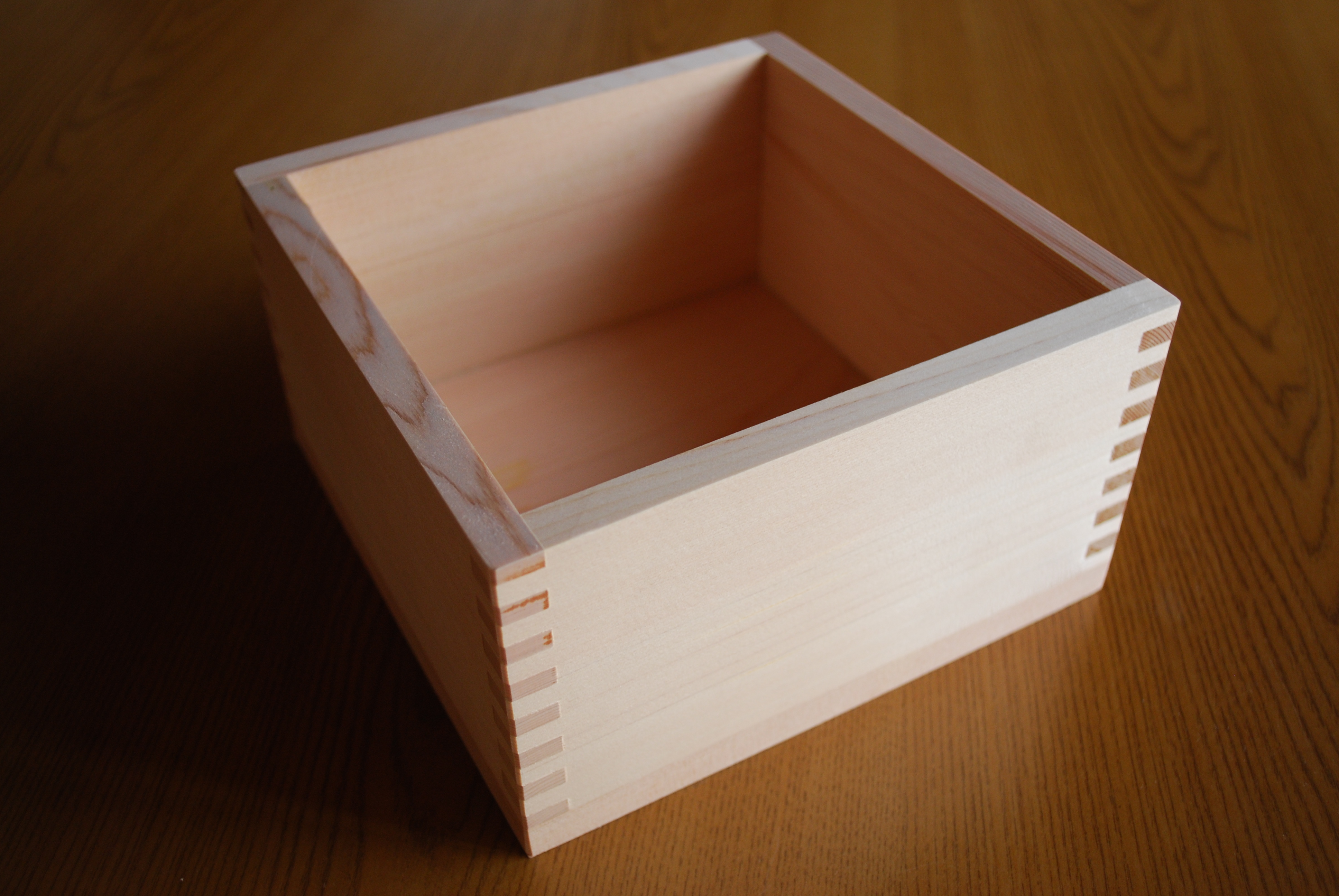 Masu,One-sho measure,katori-city,Japan